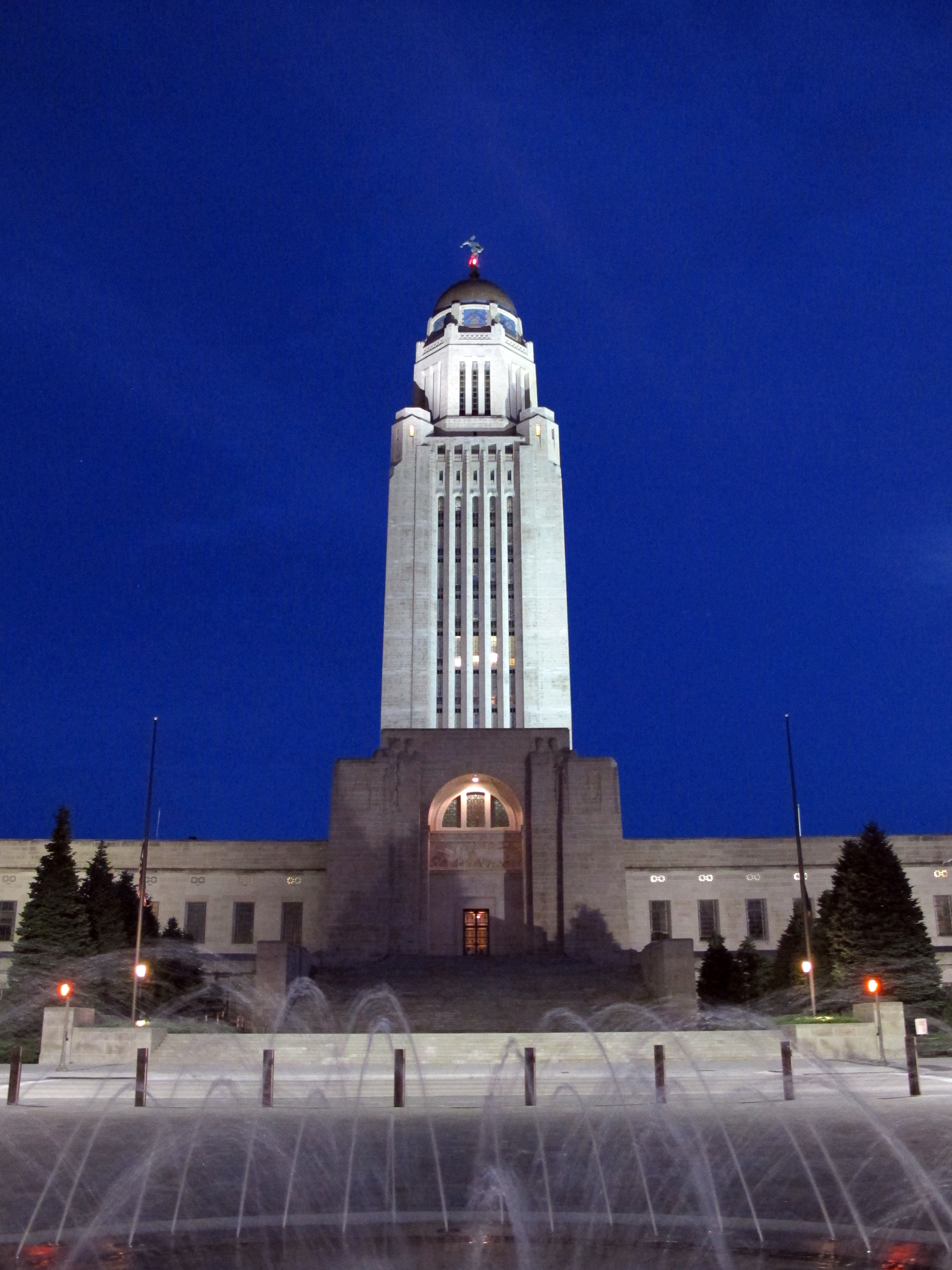 Photo of the Nebraska State Capitol in Lincoln, Nebraska. Photo taken just after twilight; looking directly south from newly renovated Centennial Mall South and at the north-face of the capitol building. The new Capitol Fountain can be seen in the foreground.